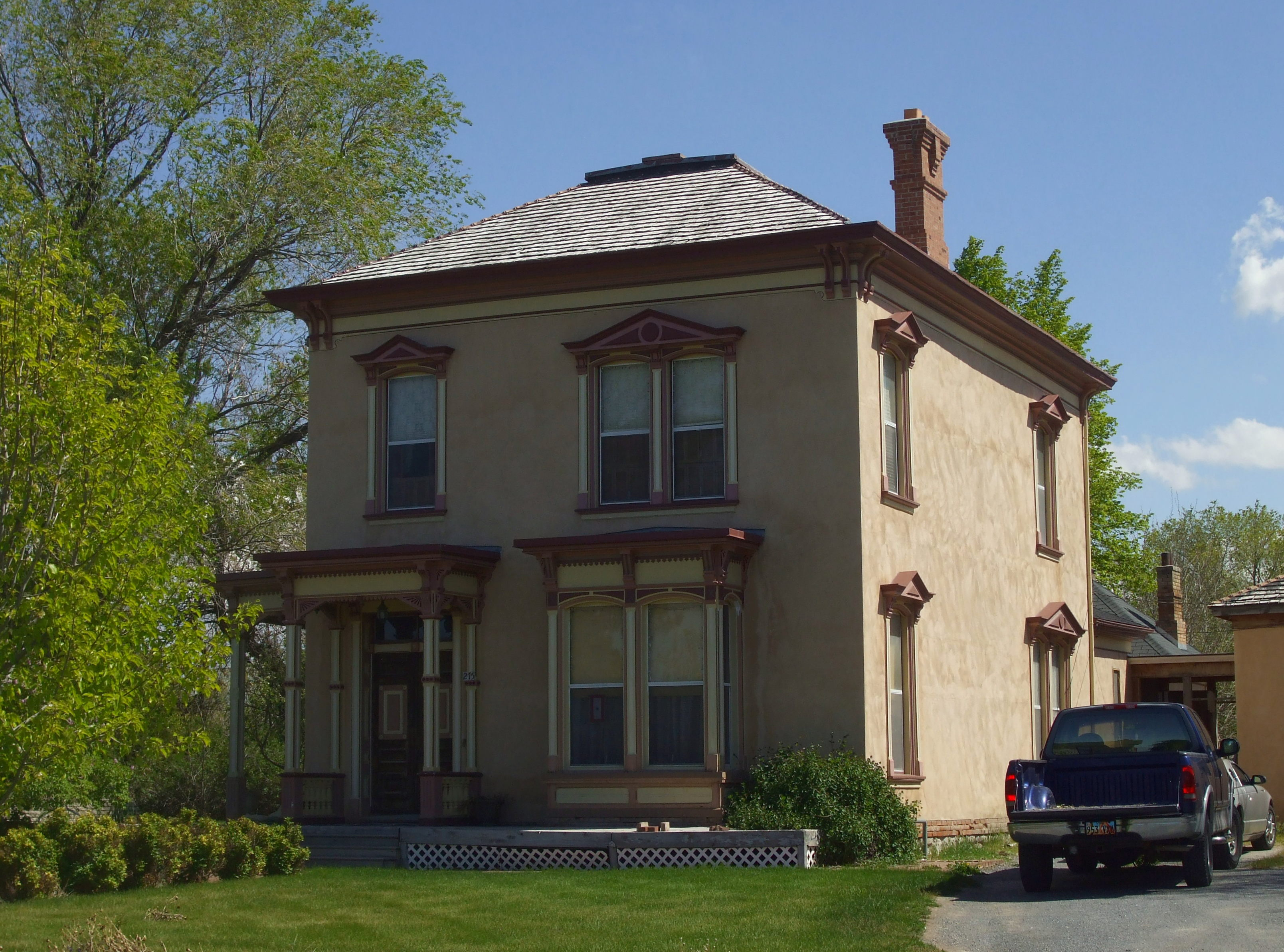 The John T. Rich House, a historic home in Grantsville, Utah, United States.